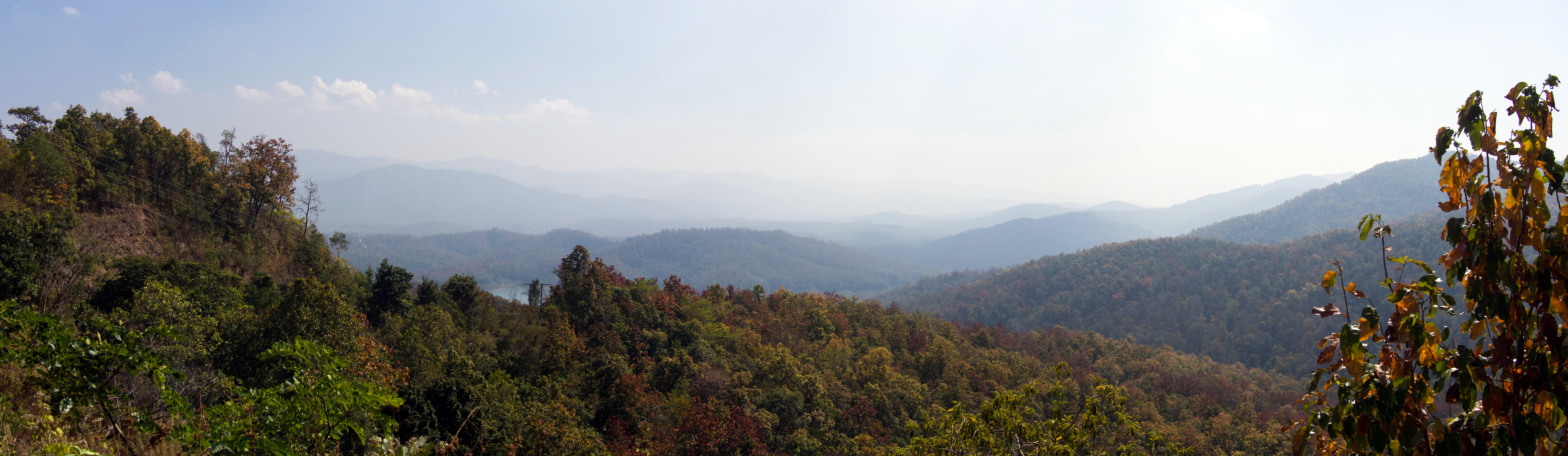 Panorama over the Phi Pan Nam Range just above the Sirikit Dam reservoir of the Nan River in January 2014 during the cool, dry season. Note the "autumn" colours of some of the trees as they are about to shed their leaves in order to preserve moisture during the hot part of the 5 to 6 month long dry season. This image was created with Hugin